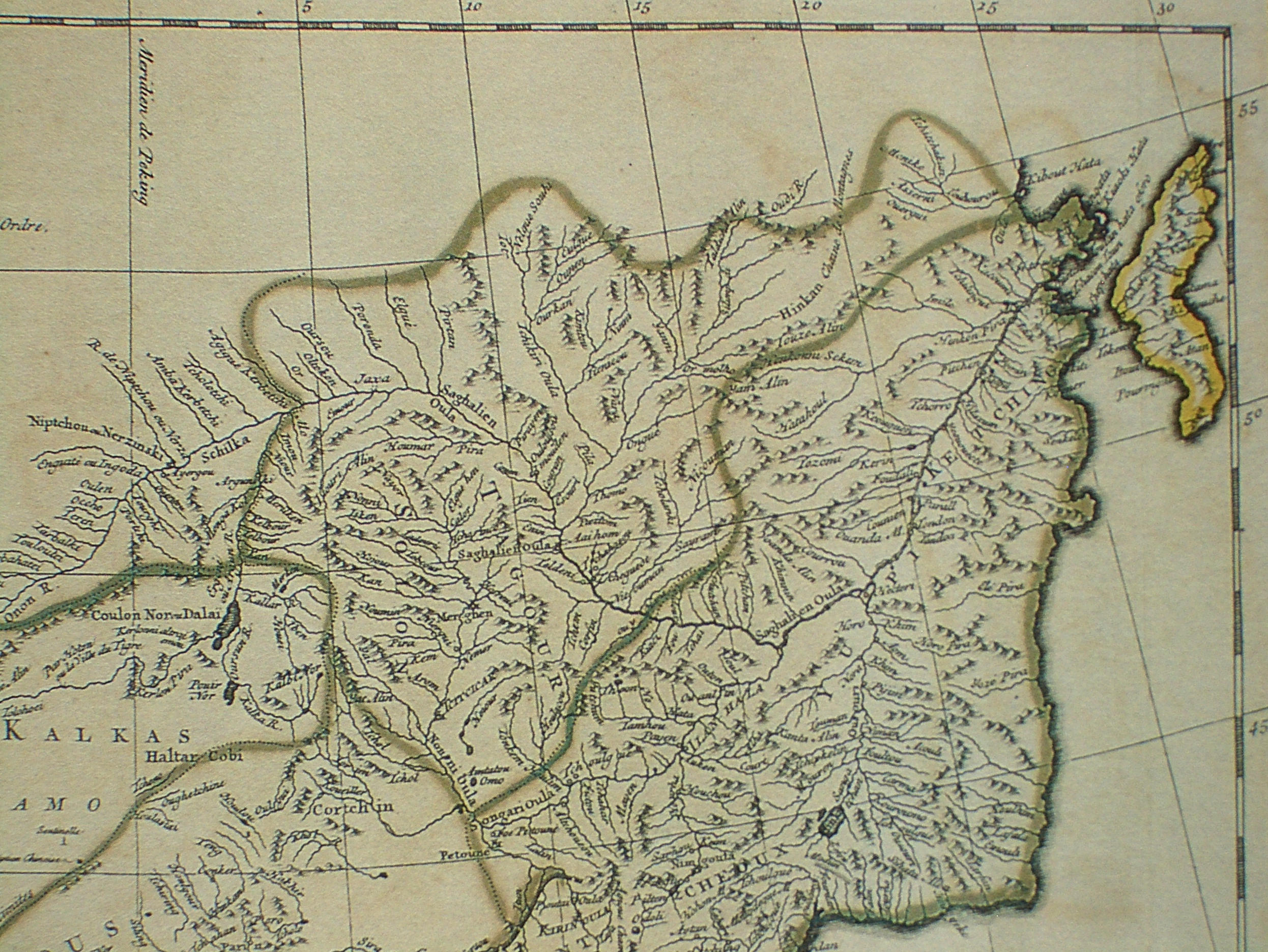 A most general map, including China, Chinese Tartary, and Tibet, based on individual maps of the Jesuit fathers. The map gives 1734 as the year, but the modern HKUST publishers say 1737